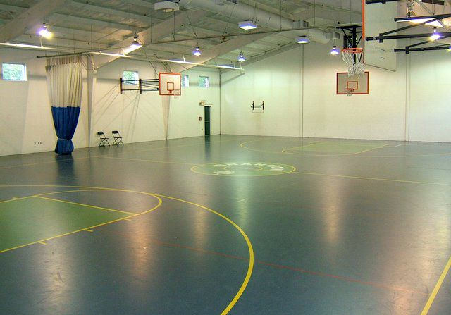 brtcgym